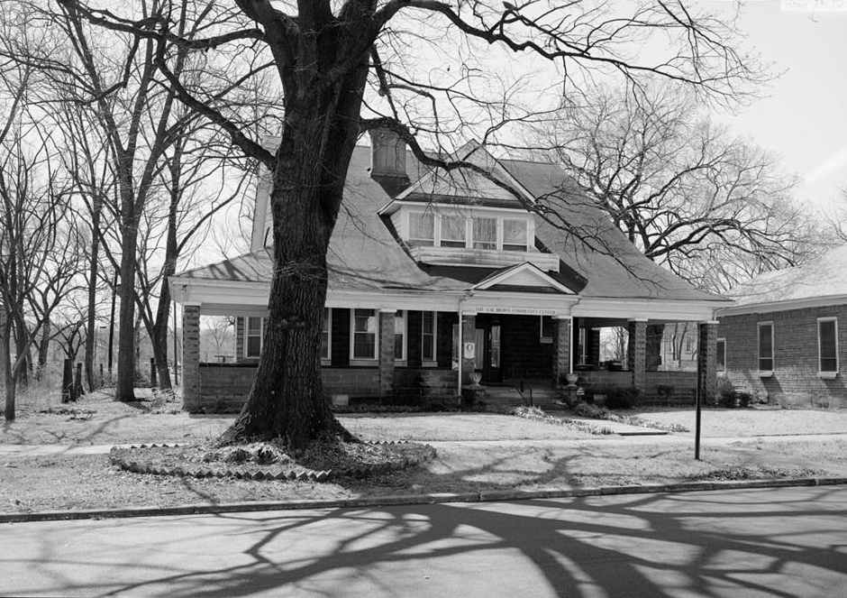 The A.M. Brown House in Birmingham, Alabama, USA, by the Historic American Buildings Survey